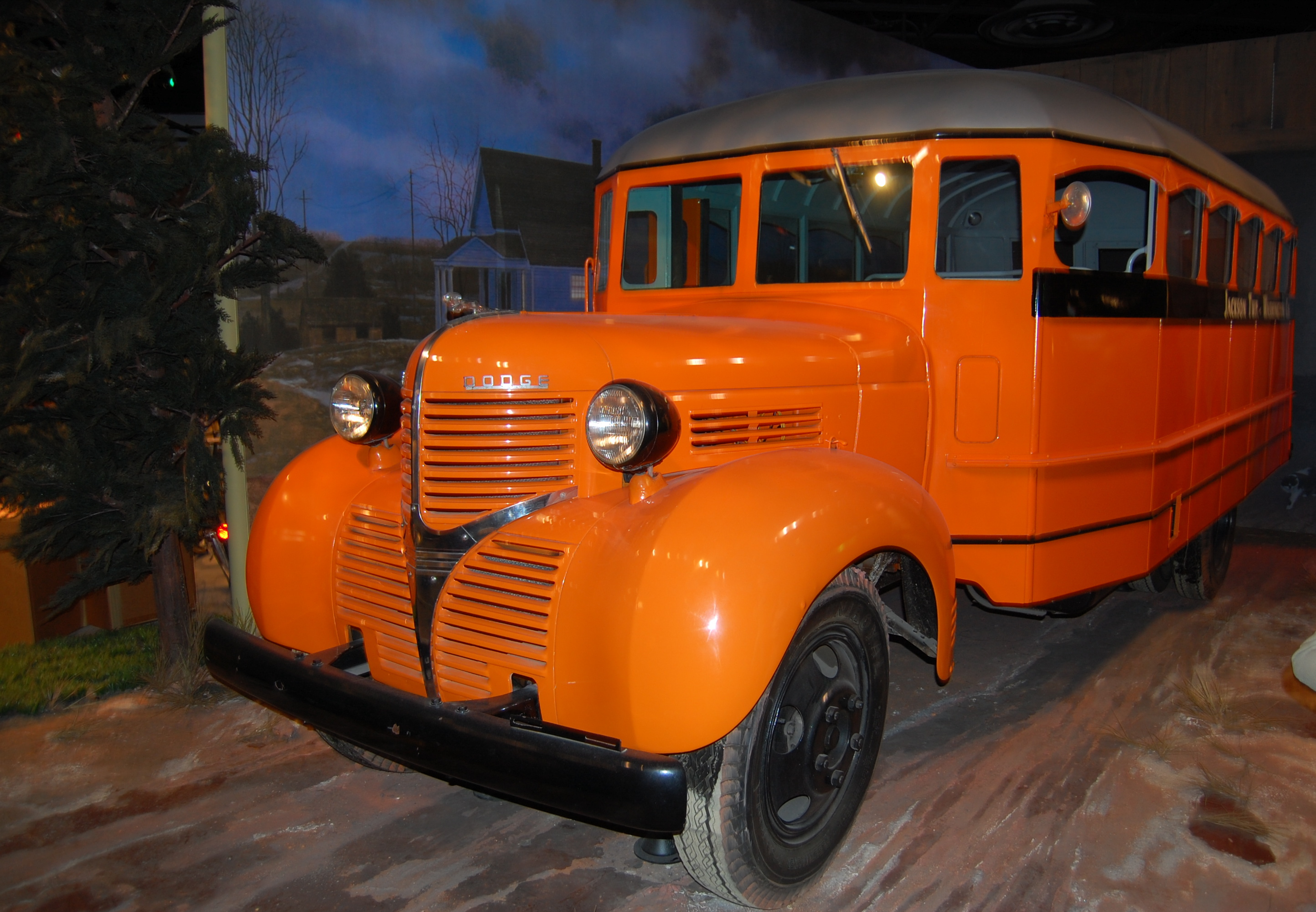 1940s era Dodge school bus seen in the Museum of American History in Washington, DC